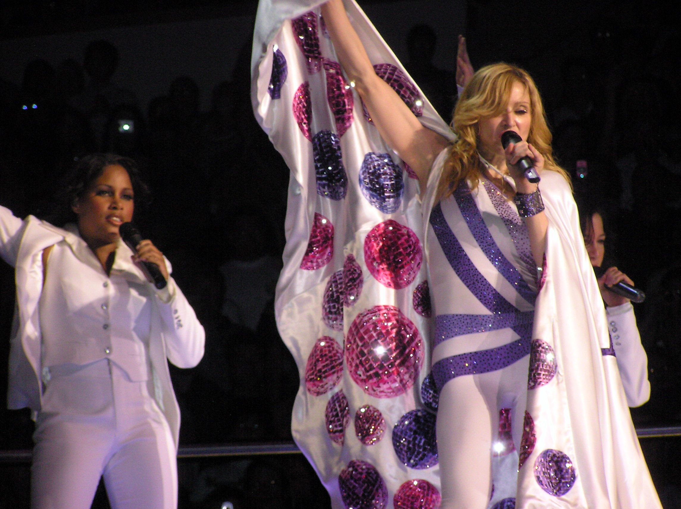 Madonna Concert